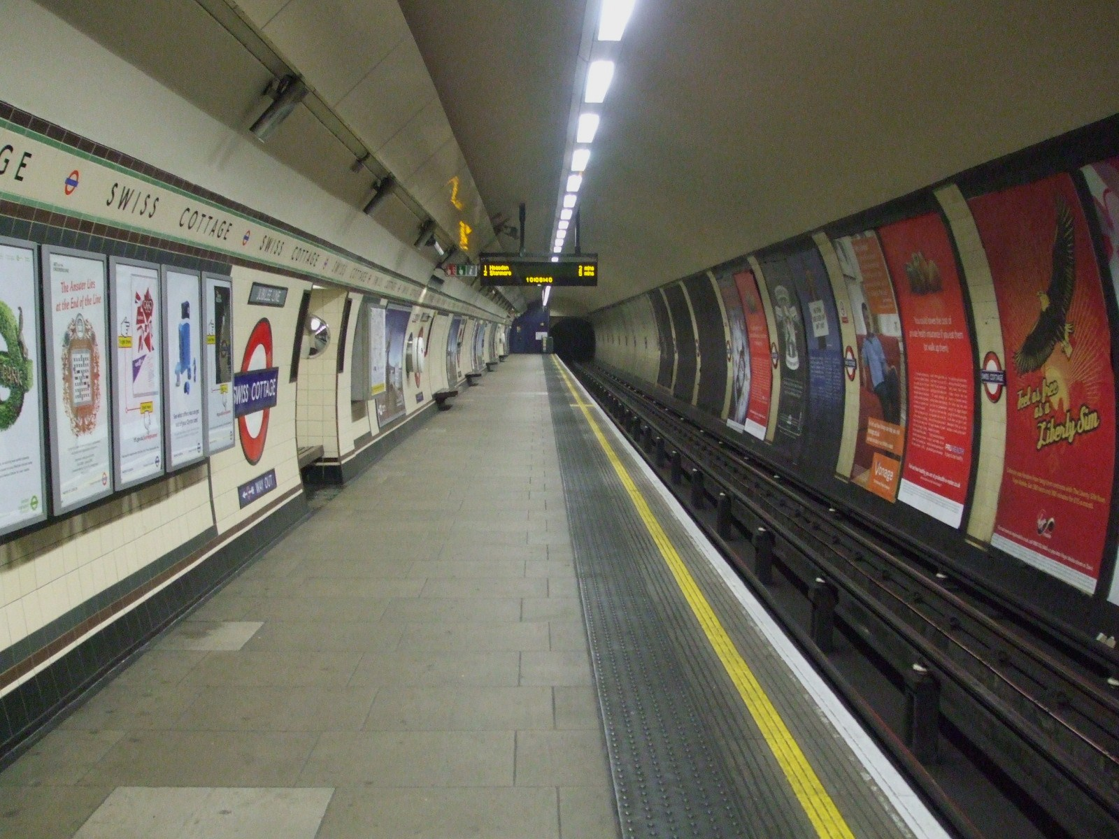 Swiss Cottage tube station northbound (actually westbound) platform looking east